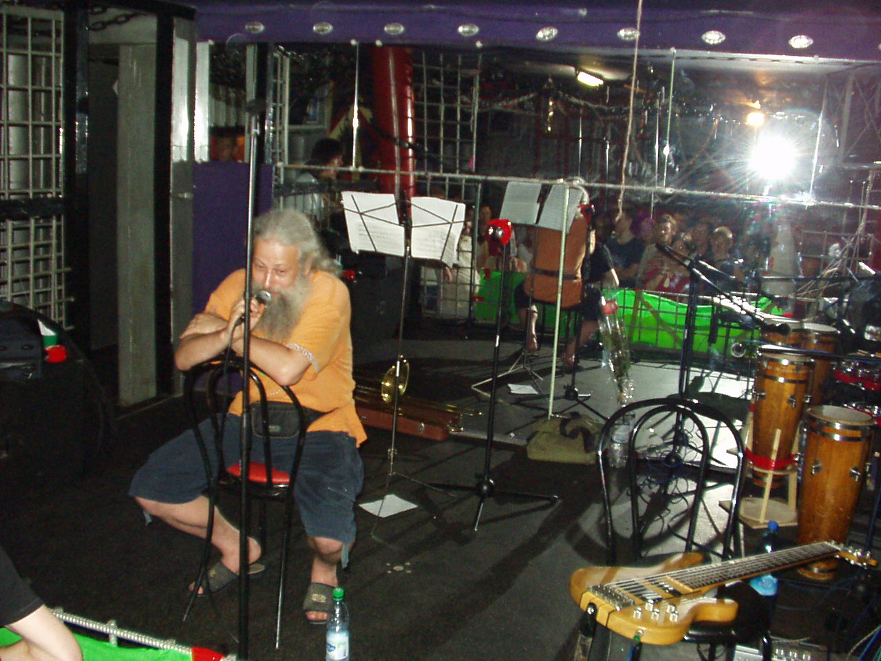 Folk-writer and storyteller Dmitry Gajduk performing in Kursk in June 2007